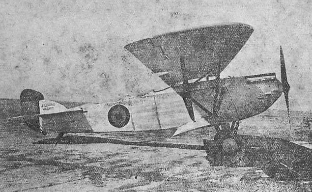 Loring R-III photo from Annuaire de L'Aéronautique 1931